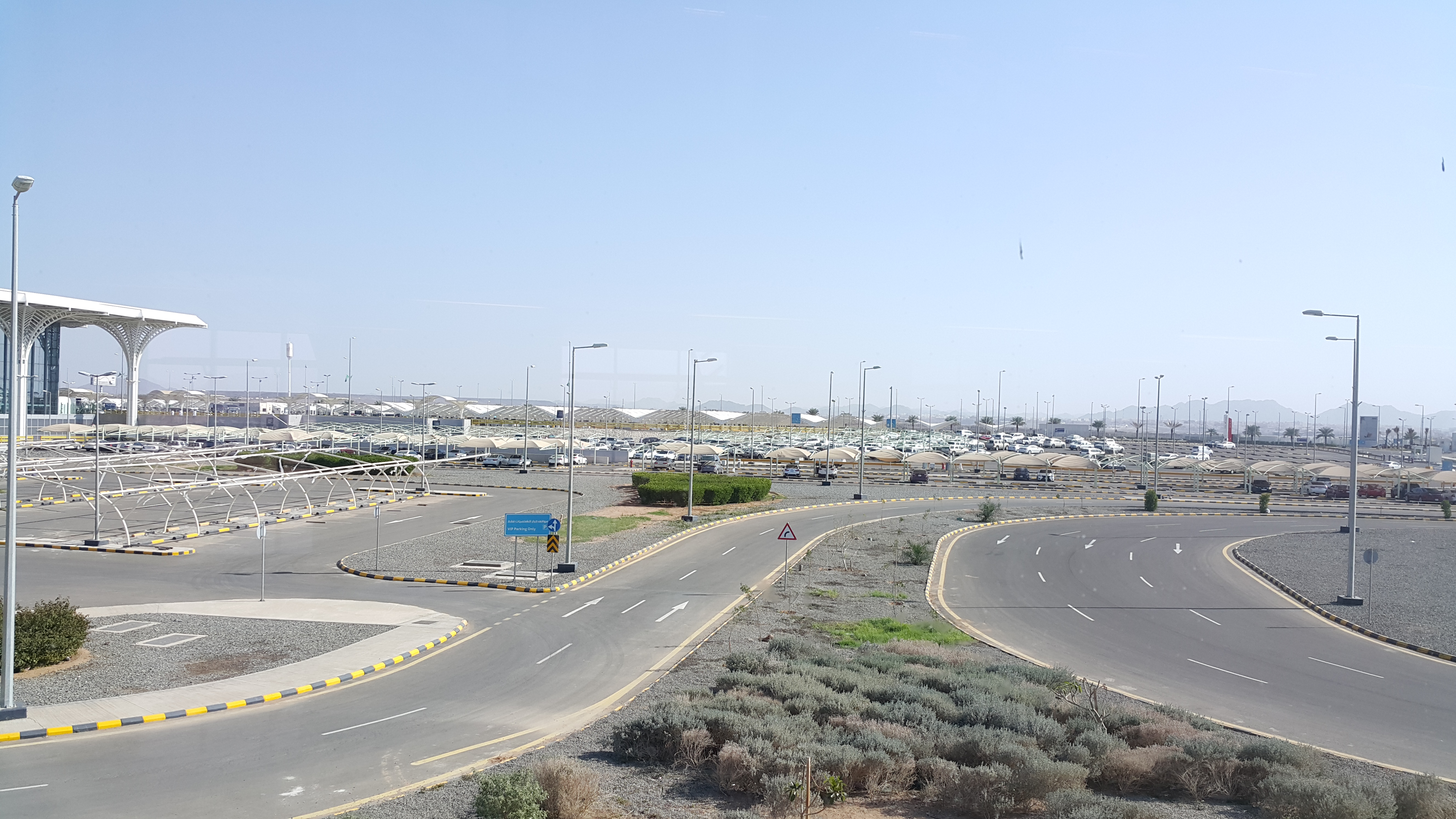 Picture of Prince Mohammad bin Abdulaziz Airport Parking Area